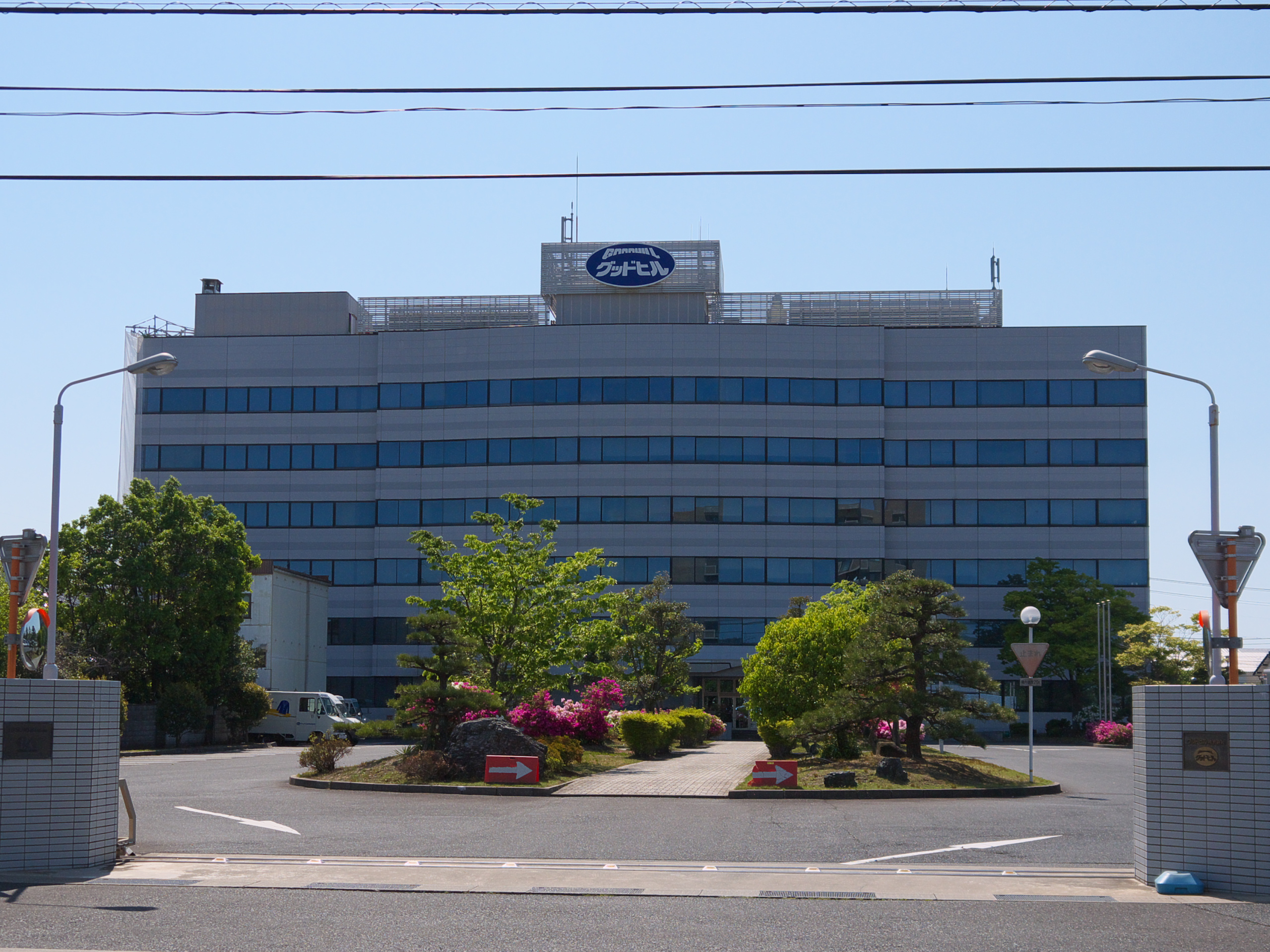 GOODHILL Corporation head office, Tottori.